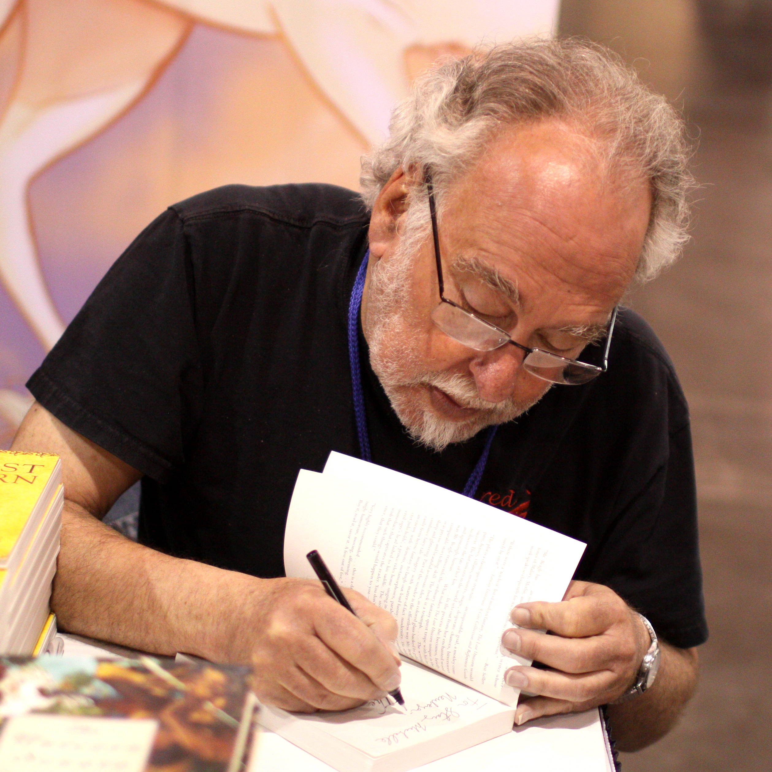 Peter S. Beagle at the 2012 Phoenix Comicon in Phoenix, Arizona.